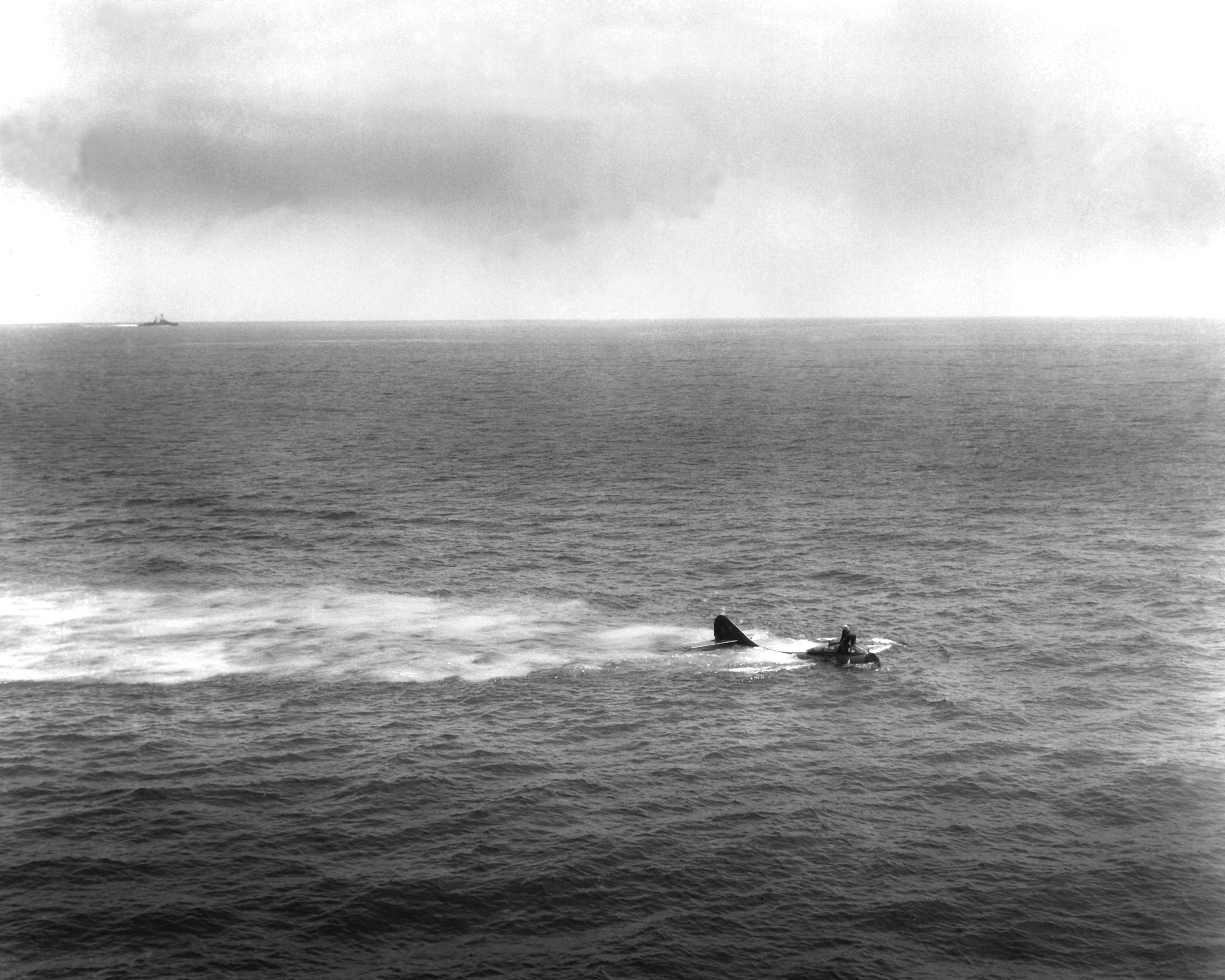 A U.S. Navy Grumman F9F-2 Panther floating on water after crashing over the bow of the aircraft carrier USS Philippine Sea (CV-47) near Korea on 7 August 1950. CDR R. Weymouth, CO of fighter squadron VF-112 Fighting Twelve, stands on nose of plane awaiting rescue. VF-112 was assigned to Carrier Air Group 11 (CVG-11) for a deployment to Korea from 5 July 1950 to 26 March 1951. CDR Ralph Weymouth went on to be Captain of the Essex Class carrier USS Lake Champlain CVS-39 in 1961 and he was in command when that ship recovered Alan B. Shepard, Jr. on May 5, 1961, which was the first U. S. manned space flight. Captain Weymouth rose to be Vice-Admiral of the U. S. Navy.